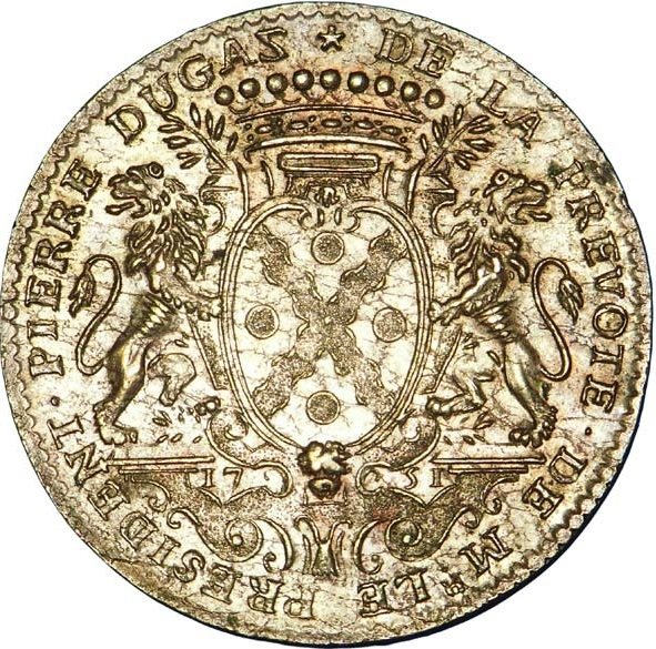 Gold coin Pierre Dugas, provost of Lyon, France